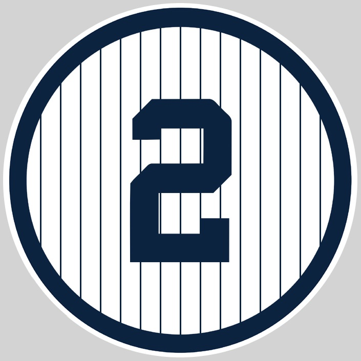 Image represents the coming version of Derek Jeter's No. 2 to be seen in Monument Park in Yankee Stadium